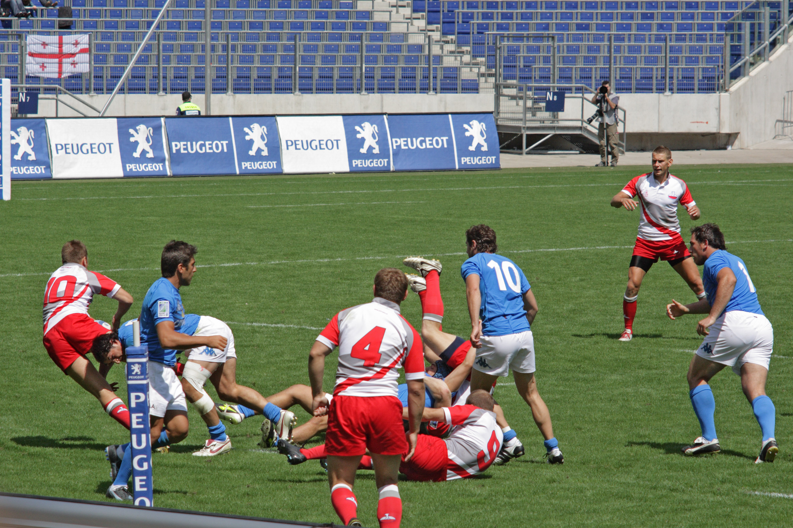 European Sevens 2008 (Hannover Sevens) tournament in Hannover, Germany. Fifth game in group B: Italy vs Poland. Italy defeated the Polish team with 40:0 points.